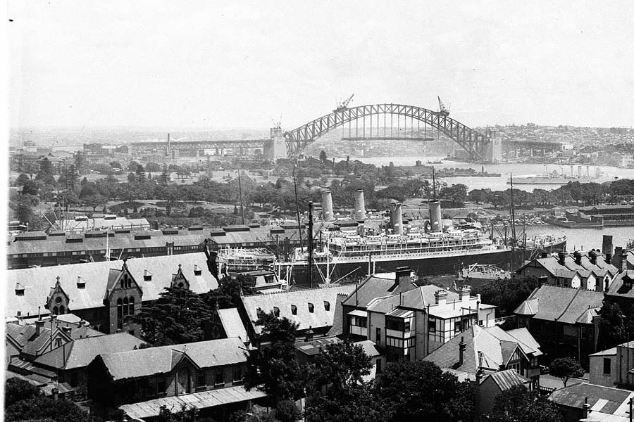 Woolloomooloo and the Sydney Harbour Bridge